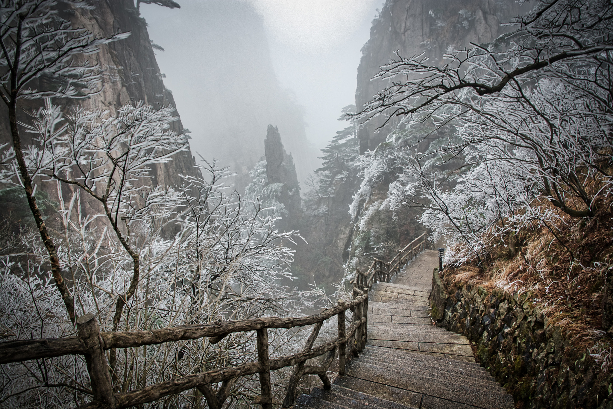 500px provided description: Yellow Mountain Icy Trees [#autumn ,#fog ,#mountains ,#winter ,#cold ,#clouds ,#tree ,#trail ,#mountain ,#woods ,#ice ,#china ,#freeze ,#scenery ,#footpath ,#foggy]